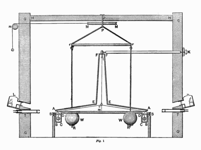 Drawing of torsion balance apparatus used by Henry Cavendish in the 'Cavendish Experiment' to measure the gravitational constant in 1798. This is a vertical section through the apparatus, including the building that housed it. Copy of Figure 1 from his 1798 paper 'Experiments to determine the Density of the Earth' published in Philosophical Transactions of the Royal Society of London, (part II) 88 p.469-526 (21 June 1798). Alterations: removed frame and caption, compensated for shear distortion caused by scanning book, converted to PNG.